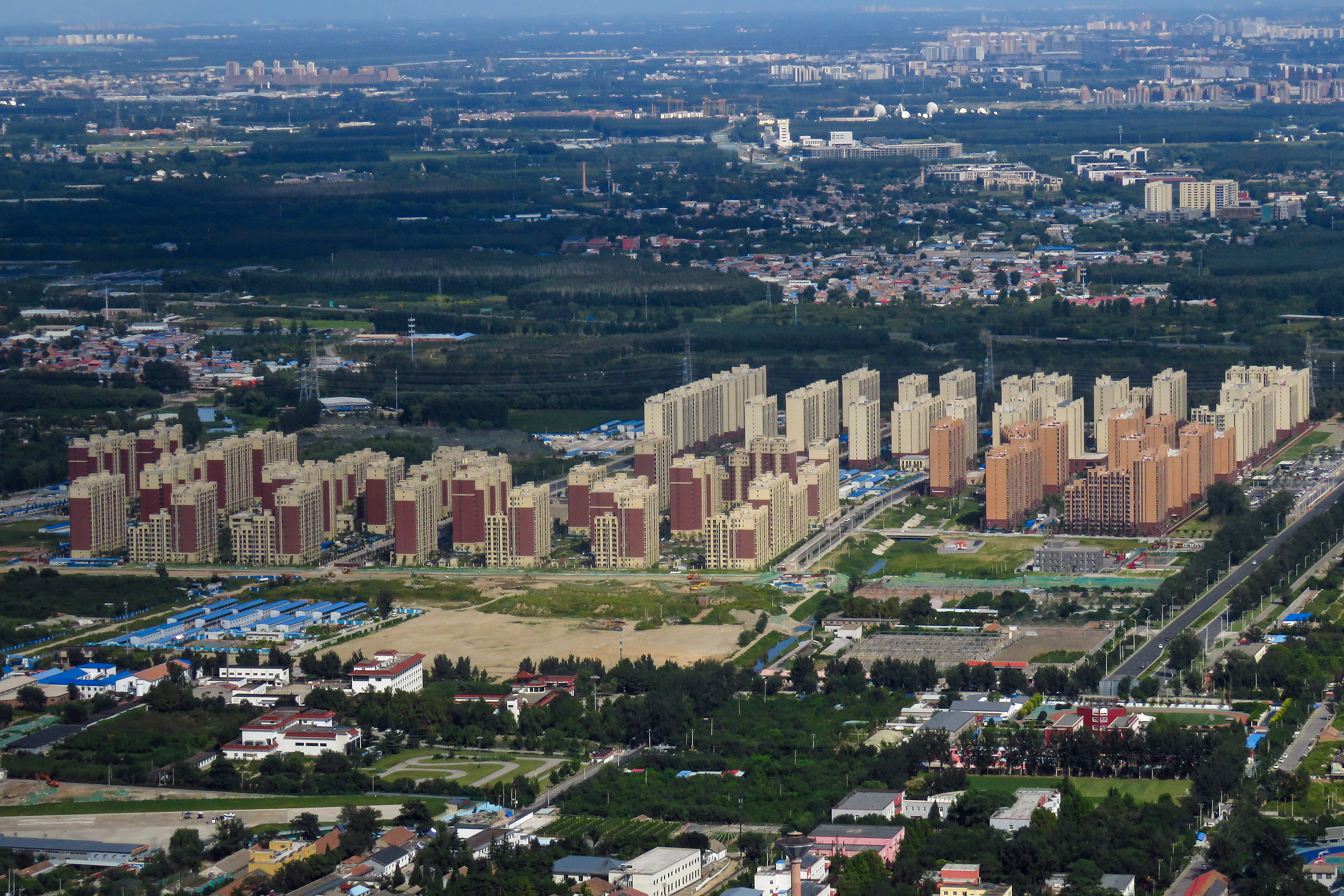 This is where the villagers of Beianhe currently resided in.